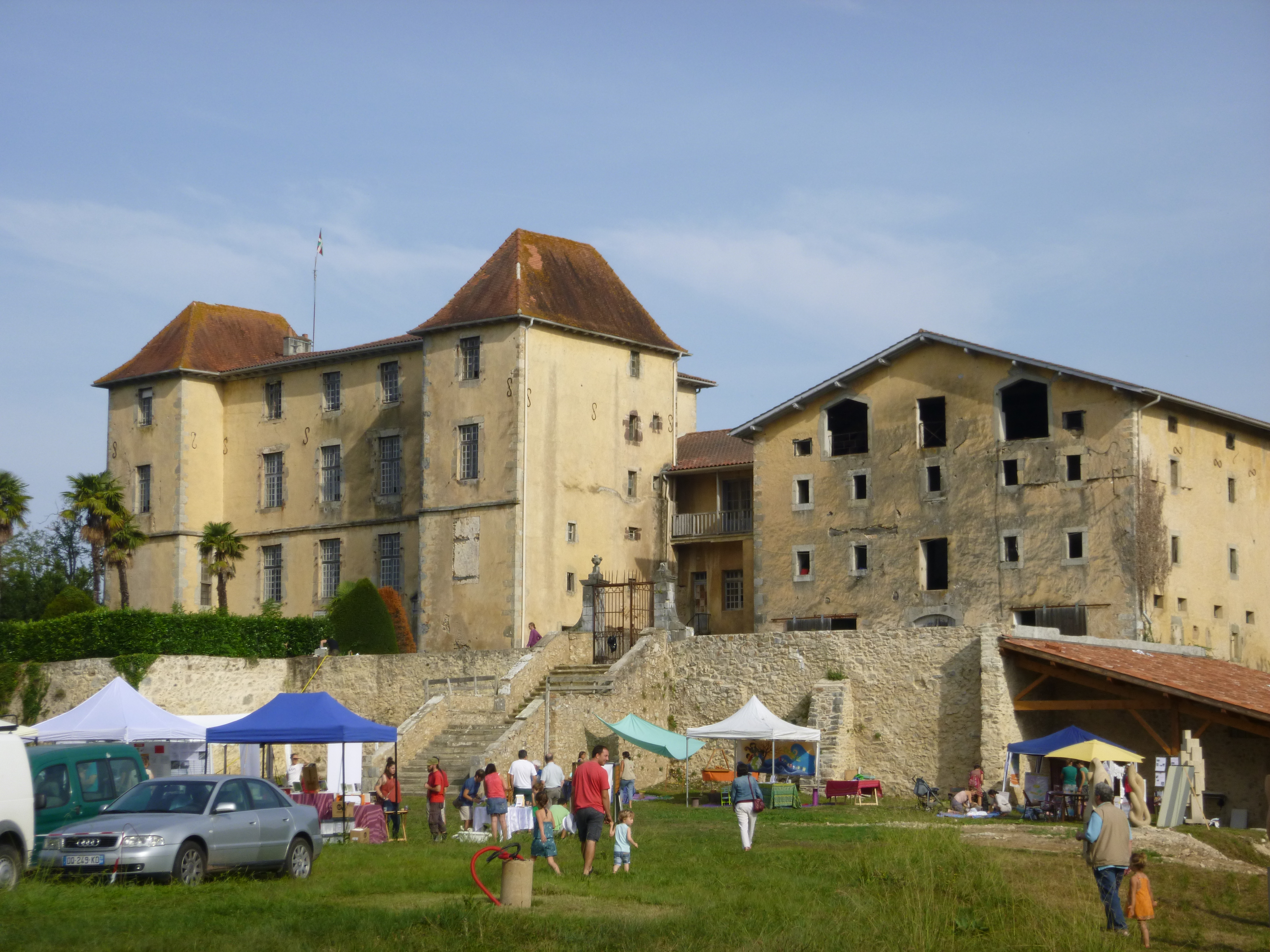 Garro palace